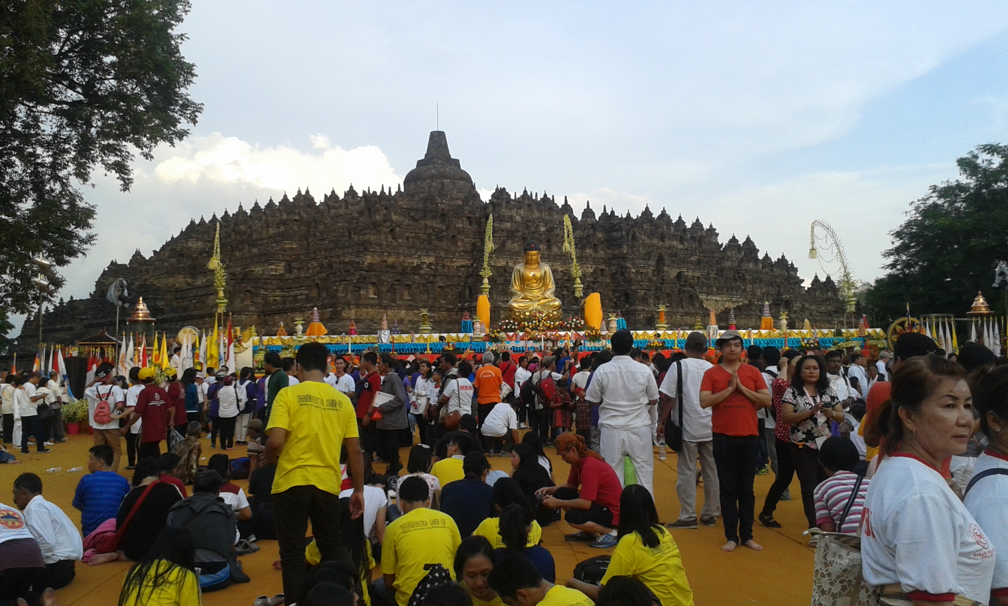 Borobudur Temple during Vesak Day 2015Bahasa Indonesia: Candi Borobudur saat perayaan Waisak 2015